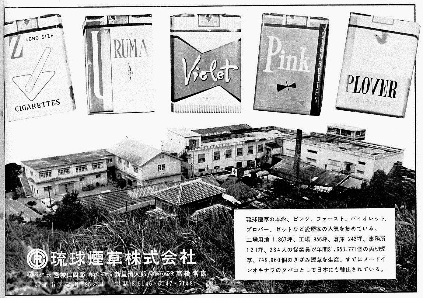 Advertisement of Ryukyu Tobacco